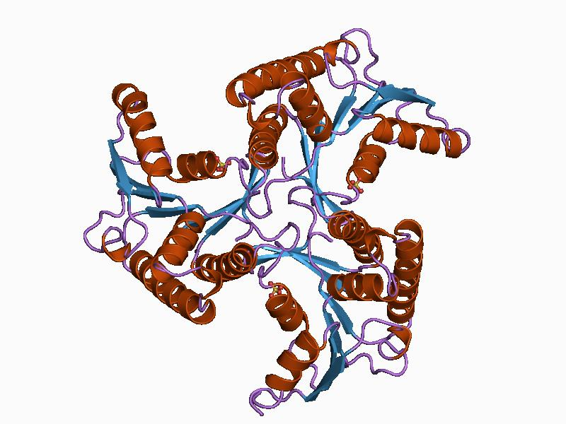 Cartoon representation of the molecular structure of protein registered with 1cbu code.